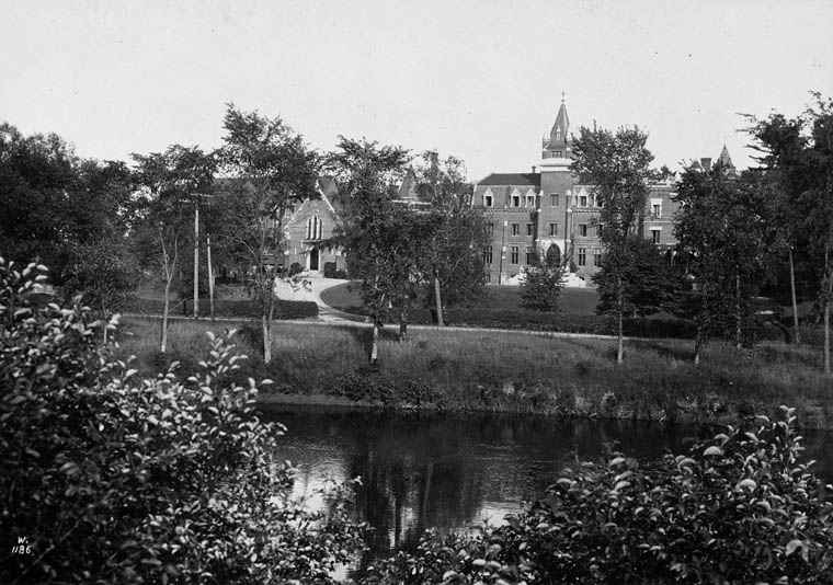 Bishop's College.